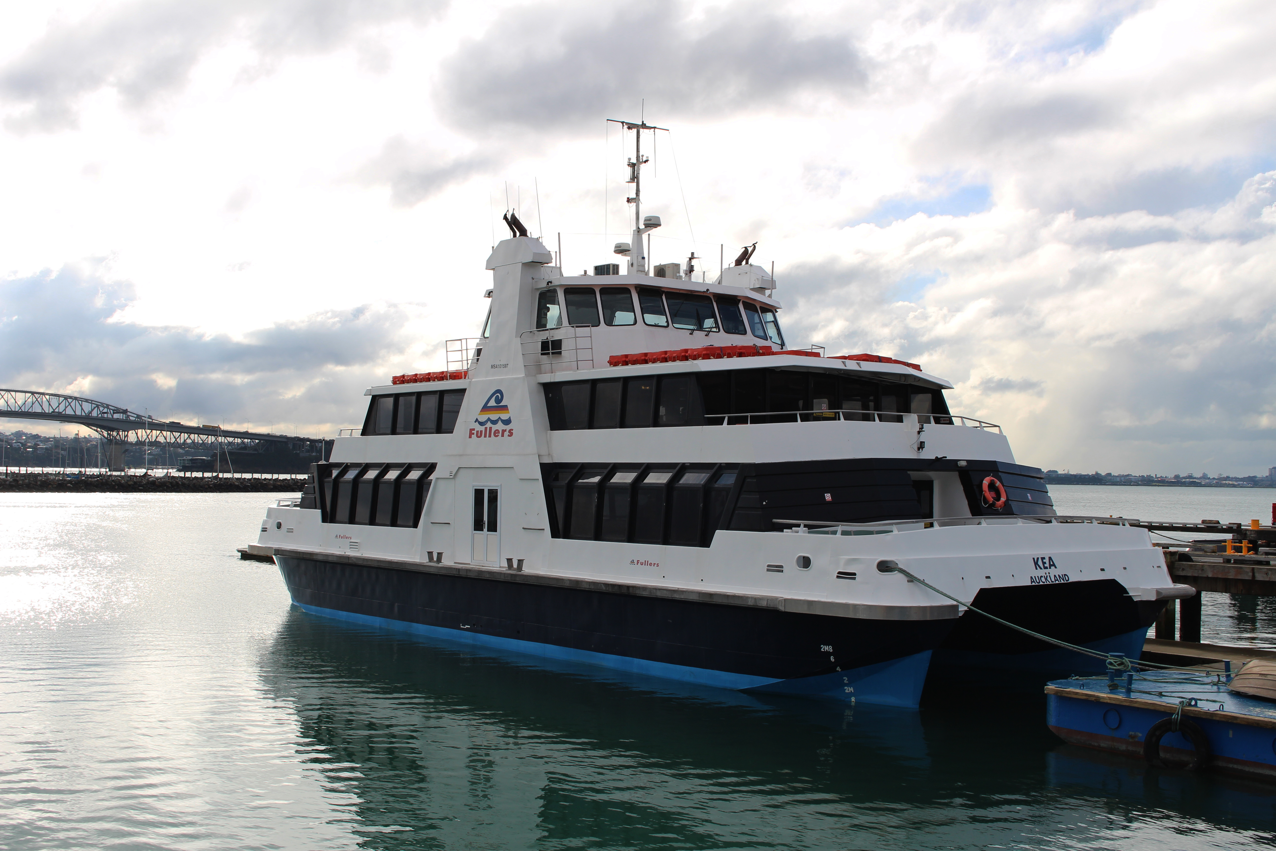 Fullers Devonport ferry Kea at Westhaven Marina